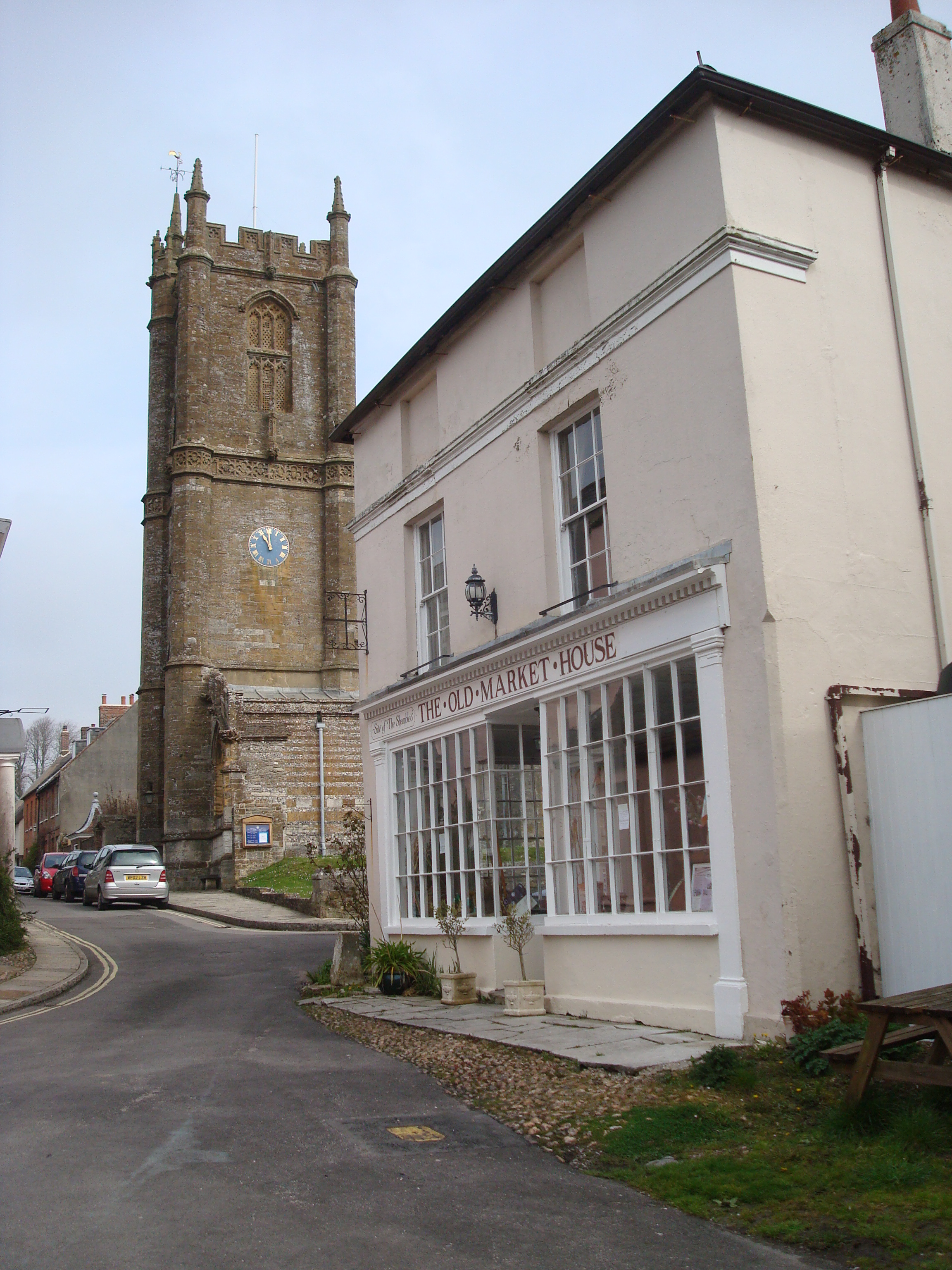 S Knights, my photo, April 2008